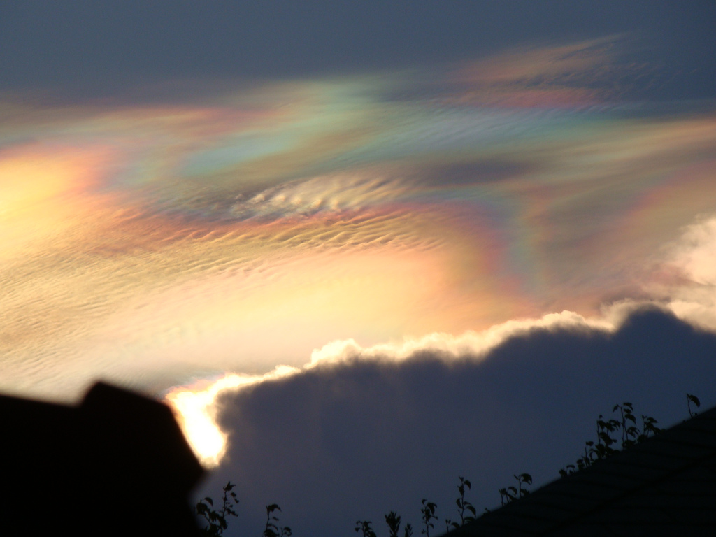 Iridescent clouds in Round Rock & Austin, Texas on July 31, 2008.